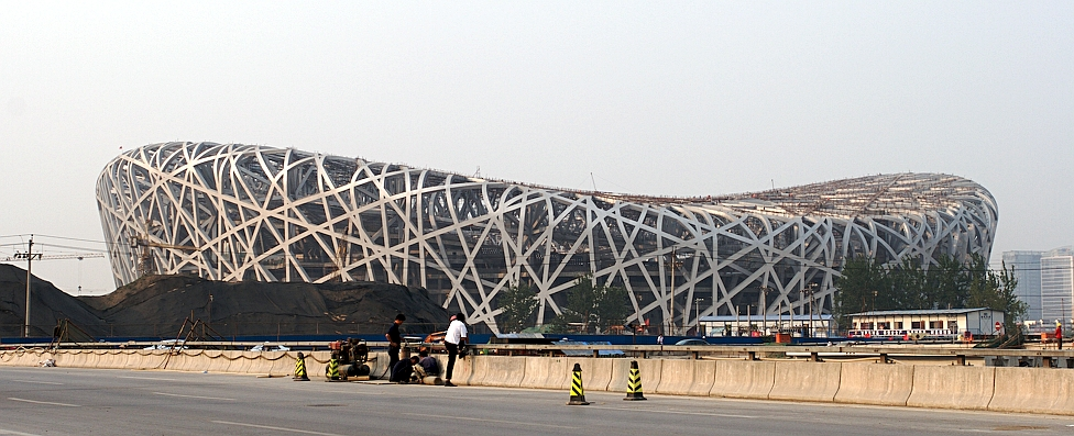 Beijing National Stadium